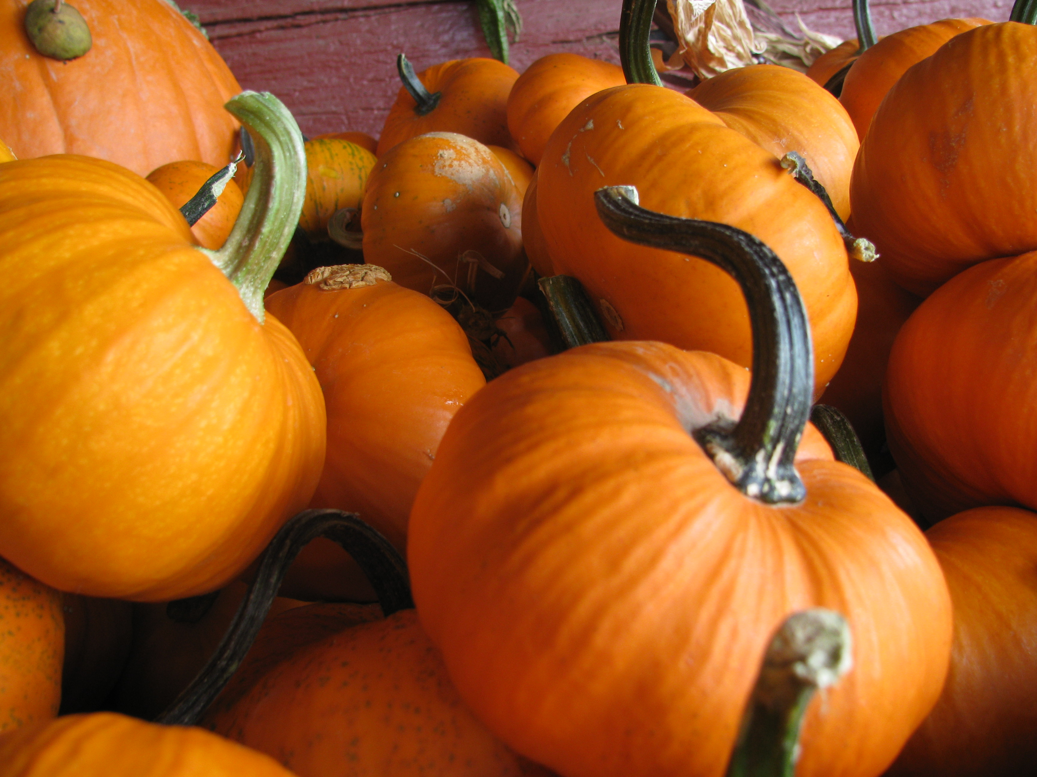 Pumpkins at the farm